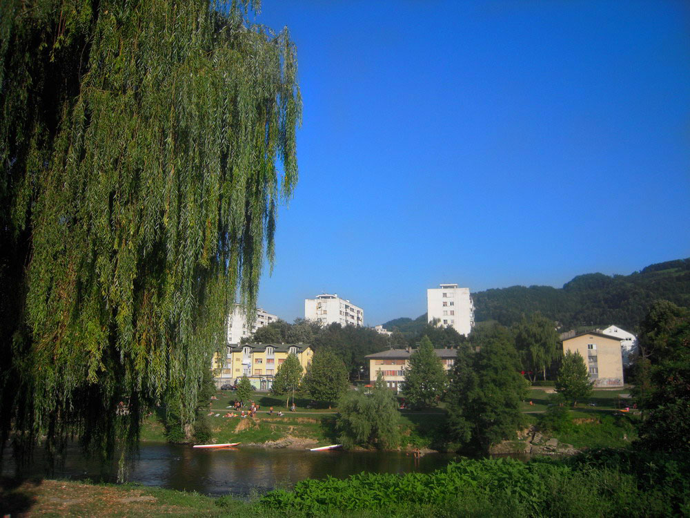 Vrbas in Banja Luka